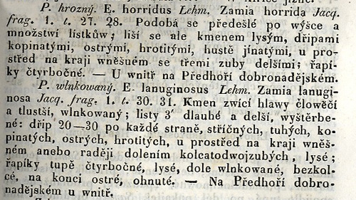 Encephalartos Czech Etymology